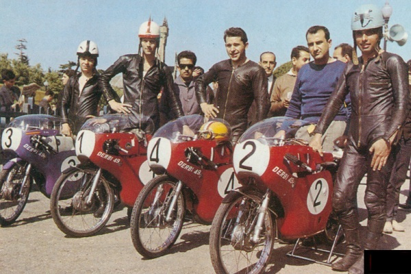 From left to right: Angel Nieto (3), Jan Tennis Huberts (1), Jacques Roca (4), Francesc Tombas and Josep Maria Busquets (2), from the 1964 Derbi team, during the Grand Prix of Spain (50cc)